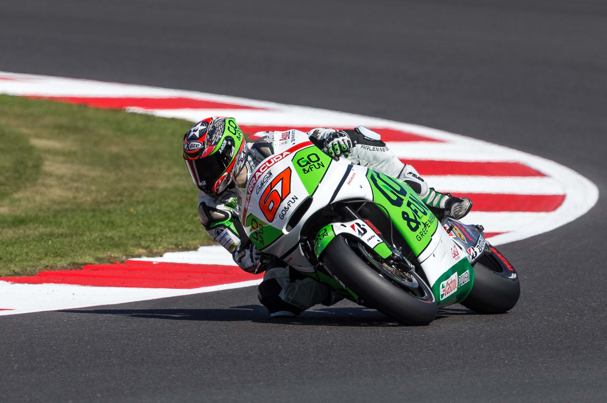 2013 Hertz British Grand Prix - MotoGP - #67 Bryan Staring